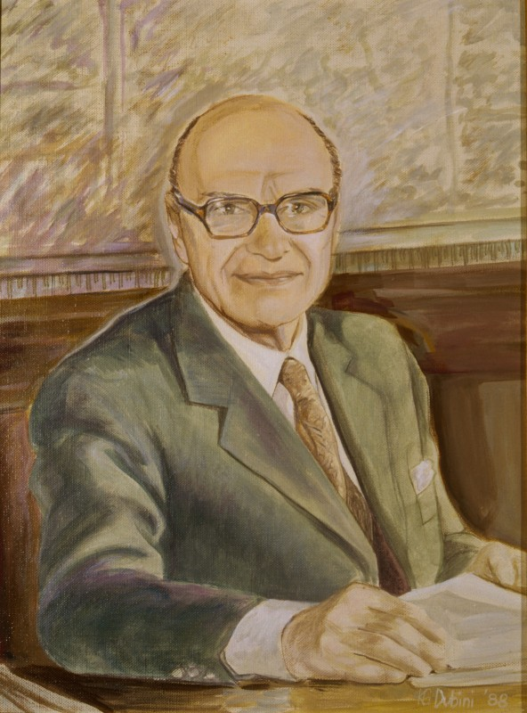 Posthumous portrait painting of the Italian businessman Carlo Pesenti (1908-1984)